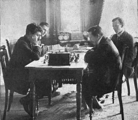 The Championship Match: Lasker v. Tarrasch, 1908